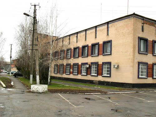 Семенівський районний відділ поліції